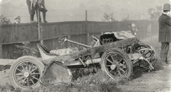 A wrecked automobile, which crashed during the 1912 American Grand Prize race in Wauwatosa, Wisconsin; possibly Mercedes #35, in which driver Ralph DePalma was seriously injured.